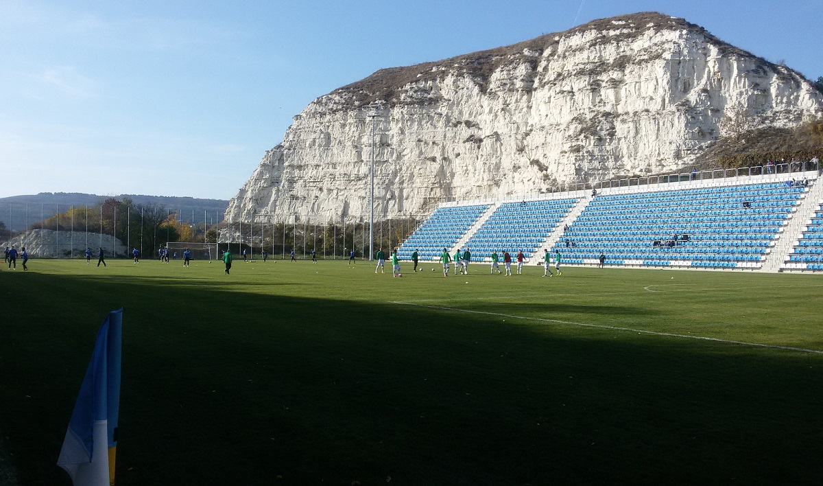 Balchik Stadium in Balchik, Bulgaria